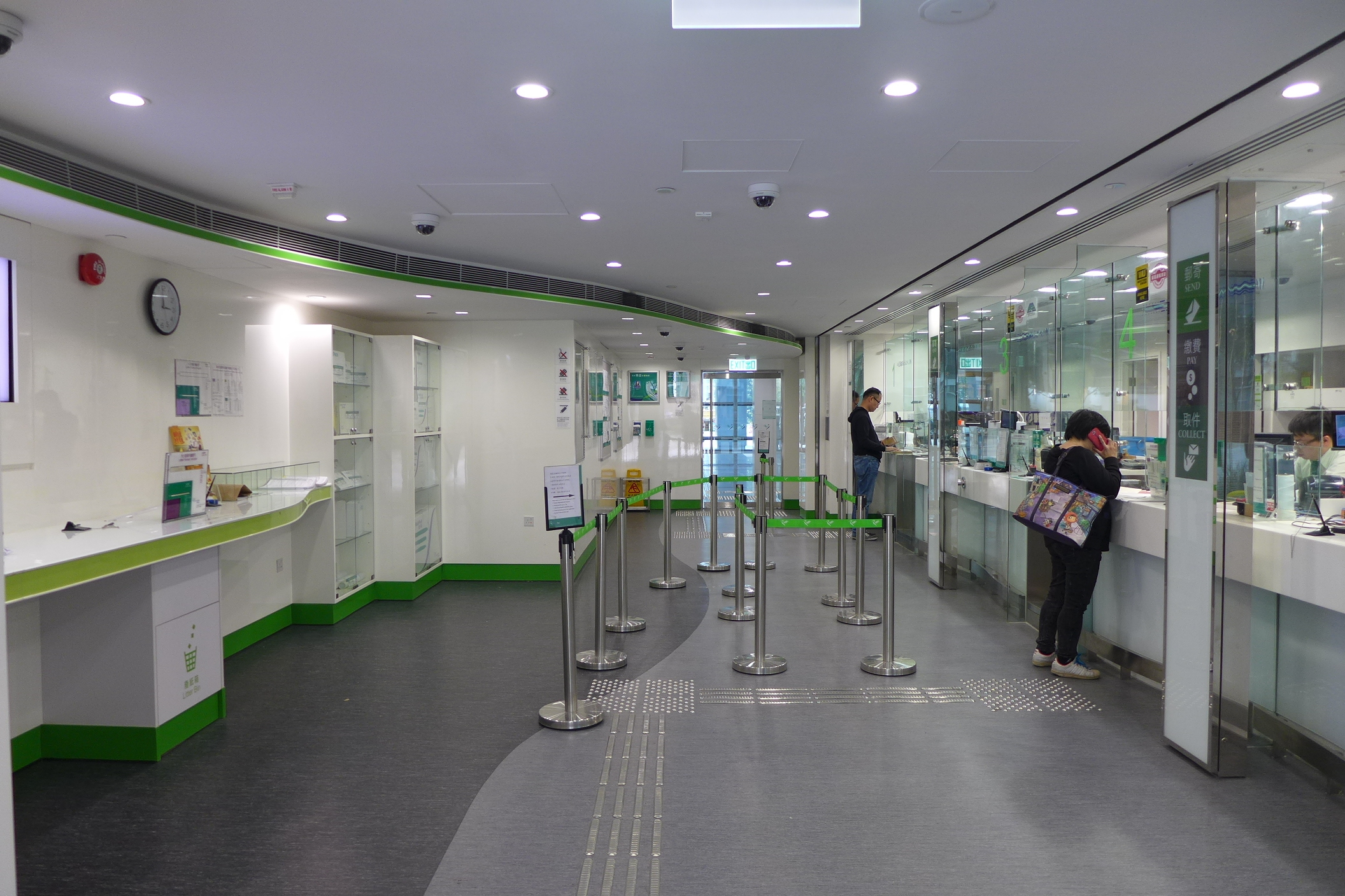 Concorde Road Post Office